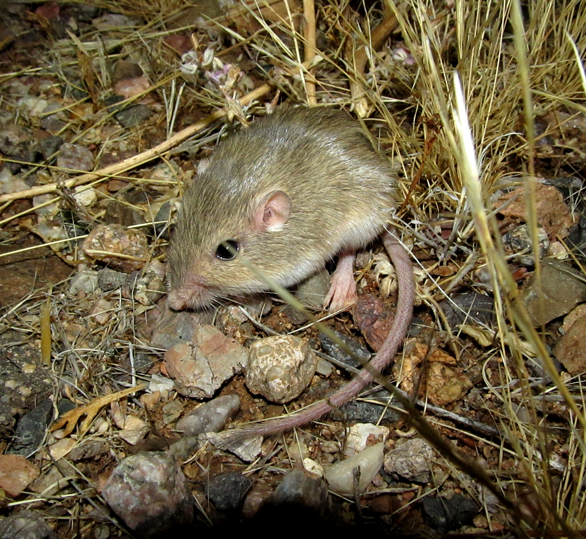 Perognathus flavus / Pinal Co., Arizona / - The smallest member of the Heteromyid family. This guy was really small - when hunched up like this, its length excluding the tail, was about 1.5 inches.